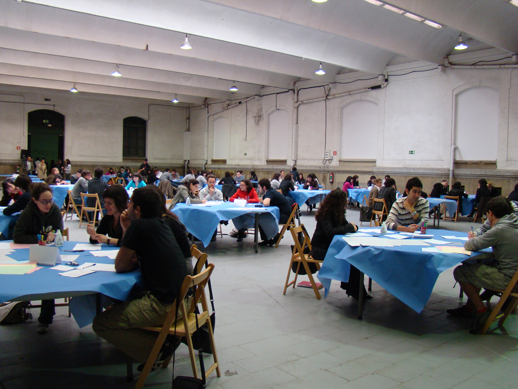 GAZE ABIAN!